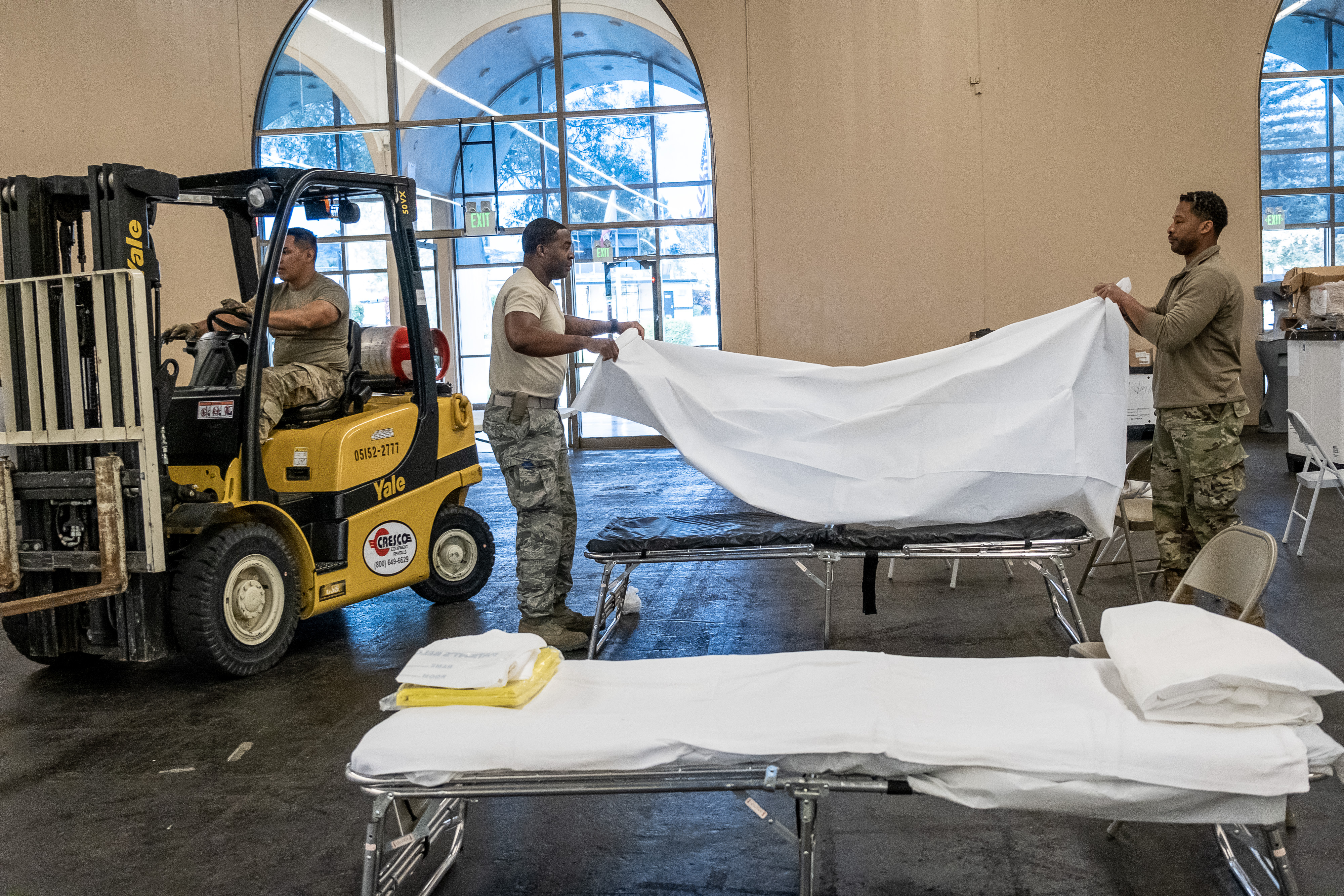 California National Guard staff set up equipment for a Federal Medical Station to support San Mateo County's COVID-19 response. Housed at the San Mateo County Event Center (fairgrounds), the FMS will provide sub-acute, non-traumatic, non-surgical treatment when local hospital capacity has been exceeded. Photo: San Mateo County